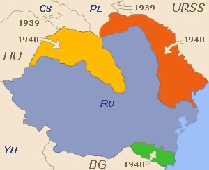 Romania's 1940 lost territories:Orange-Northern Transylvania; Red-Bessarabia and Northern Bukovina; Green-Southern Dobruja (Cadrilater)